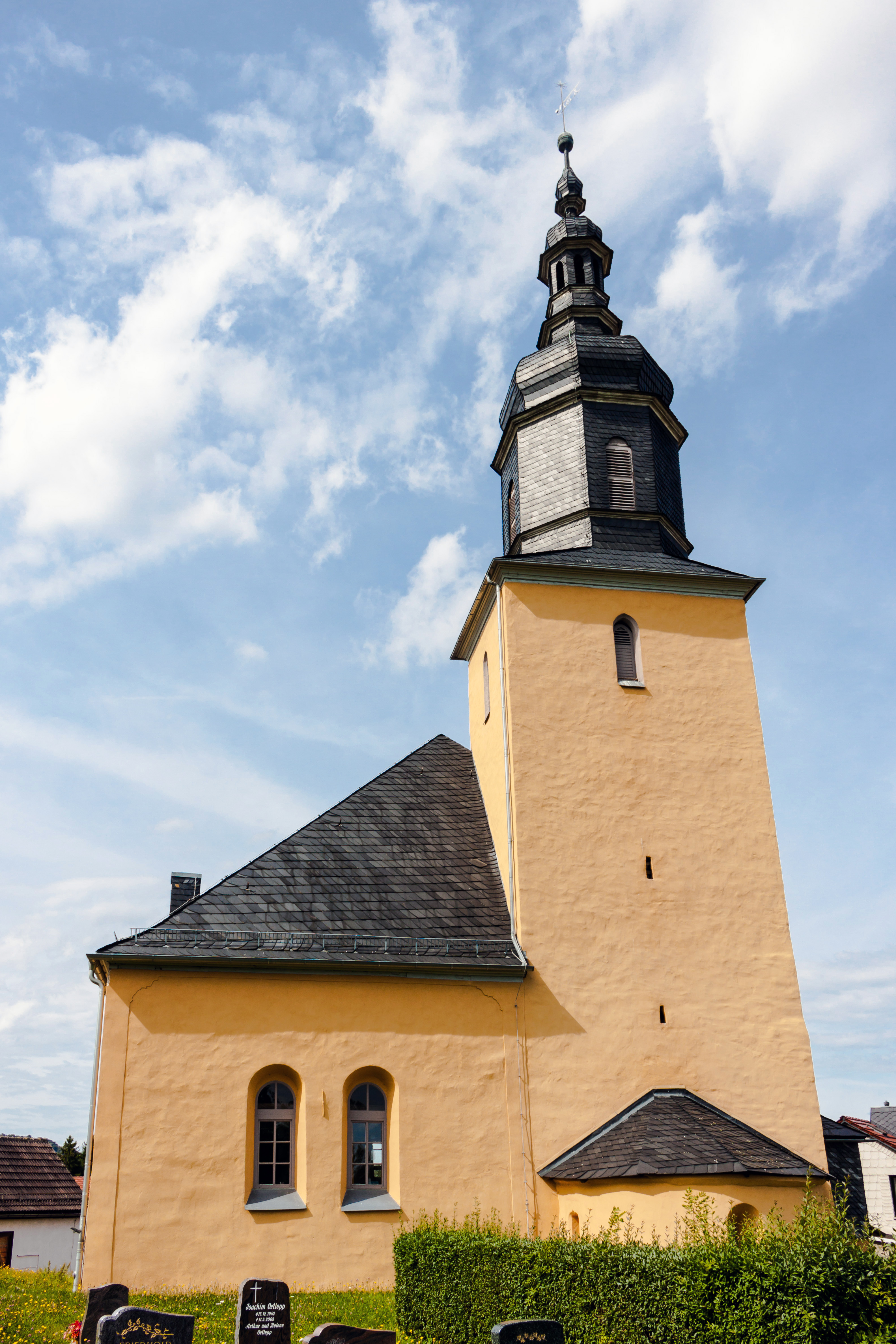 The protestant village church of St. Laurentius is located in the municipality Bodelwitz in Thuringia, Germany.